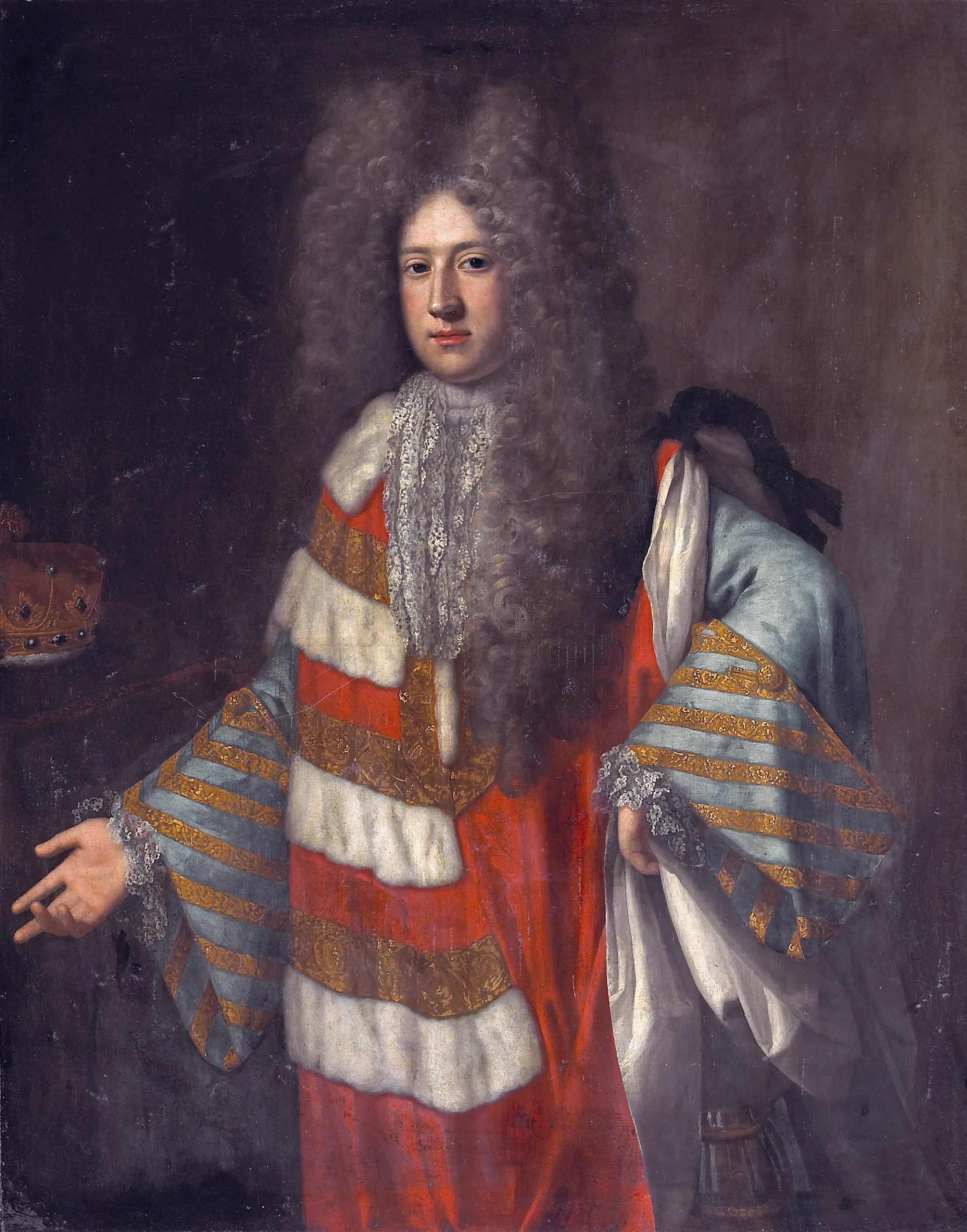 Roger Boyle, 2nd Earl of Orrery oil on canvas 127.6 x 102.9 cm